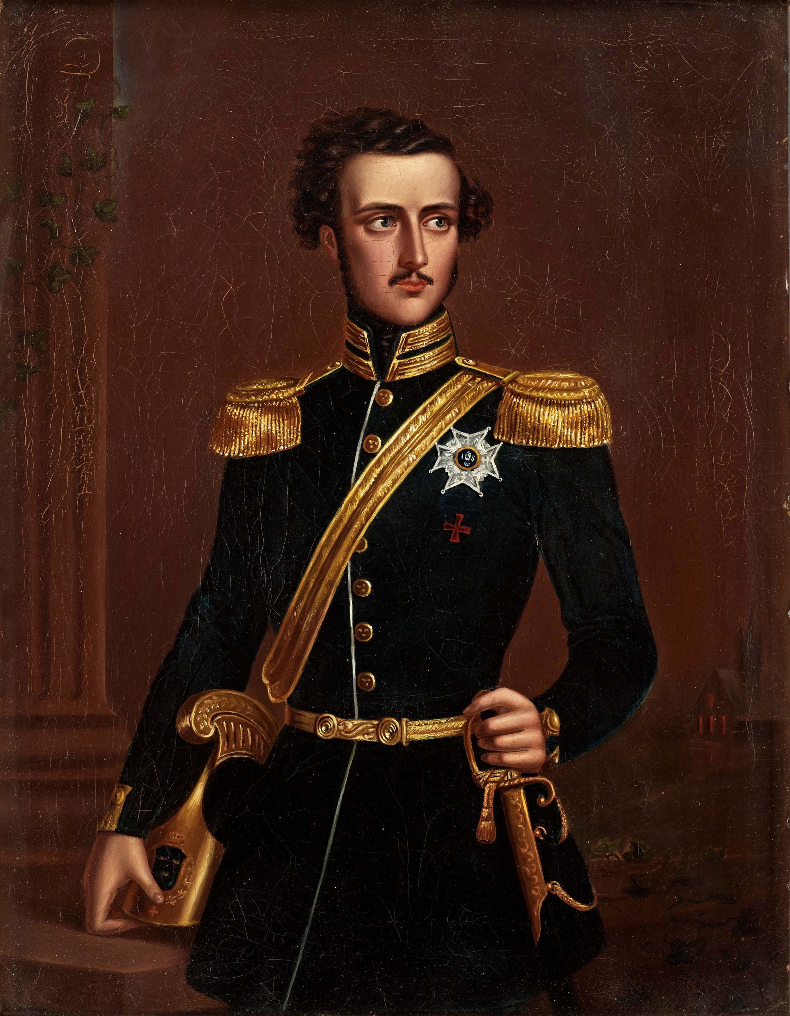 Prince Gustav of Sweden and Norway (1827-1852), son of King Oscar I